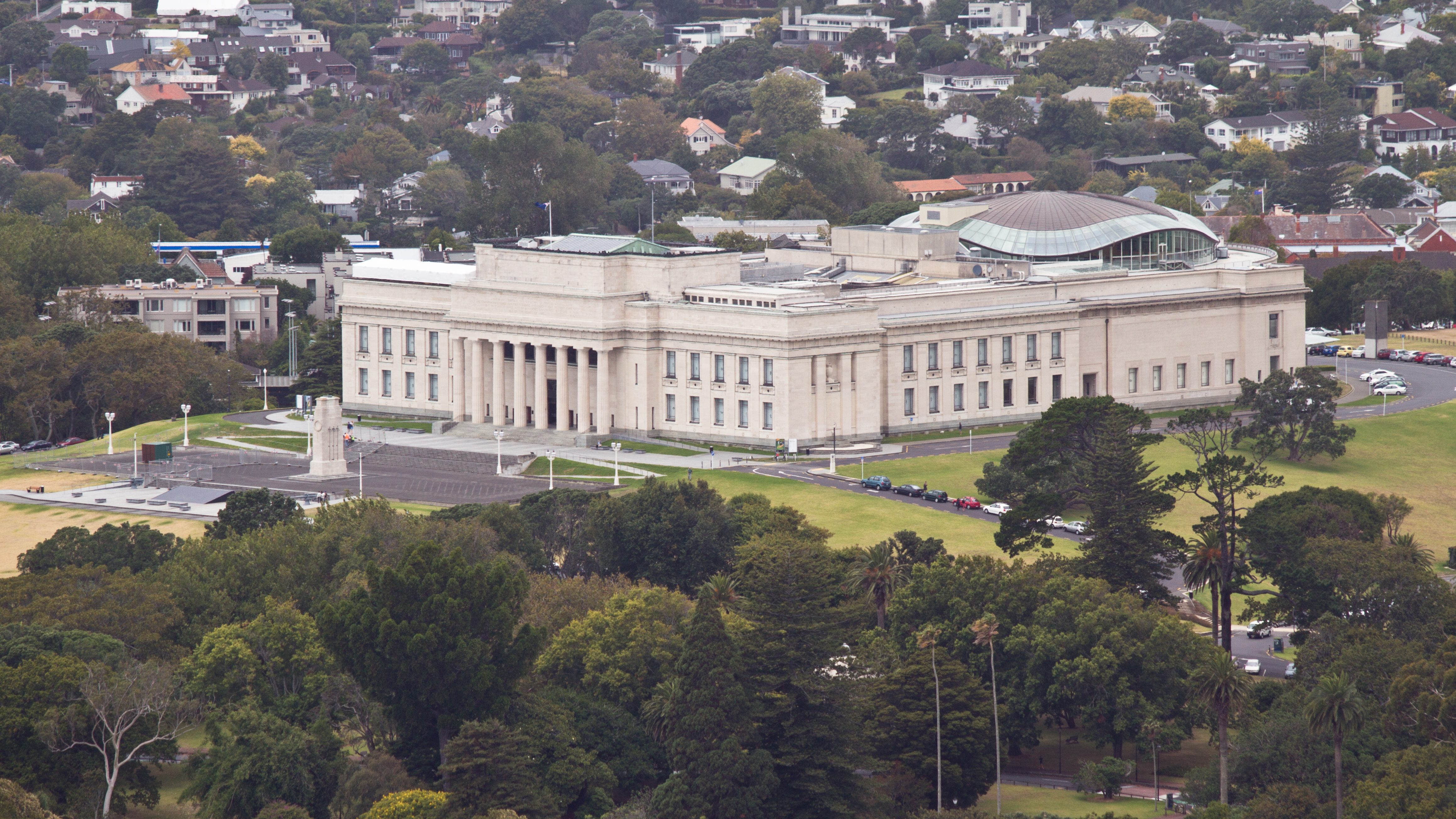 Auckland War Memorial Museum, as seen from the Sky Tower.